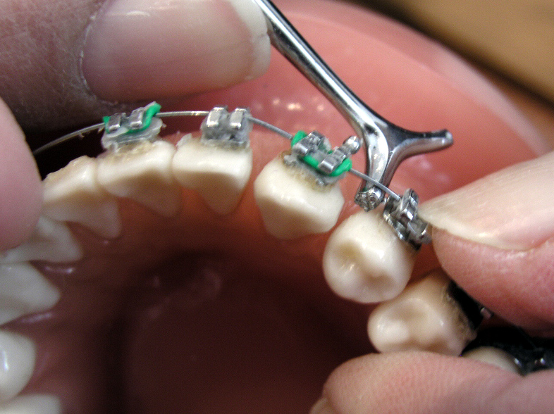 Brackets for orthodontics. Bending down the mounting wire behind the arch-wire, unfortunately wire not visible. The photo was taken the 23rd December 2005 by Håkan Svensson (Xauxa).